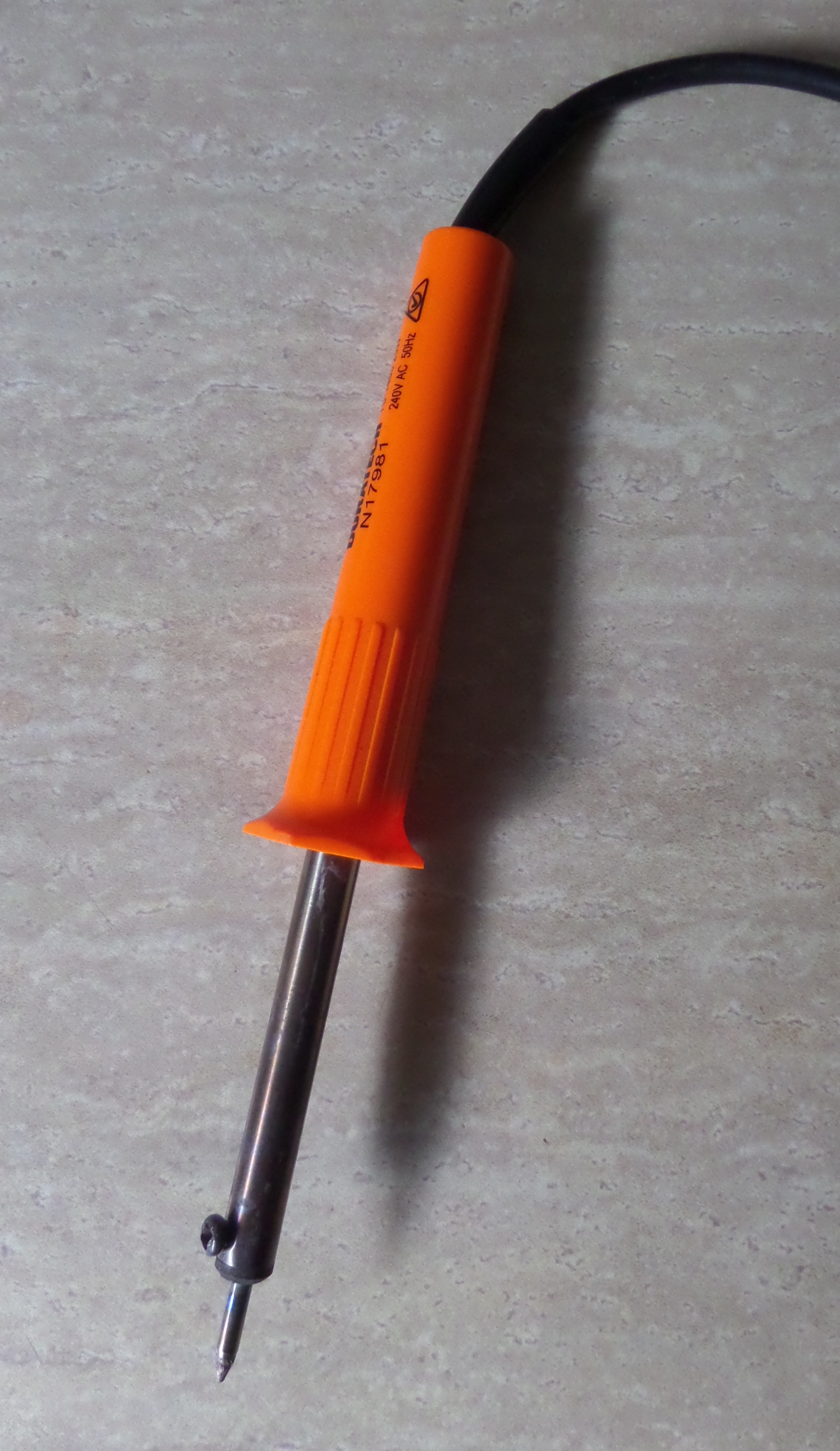 Orange solder iron